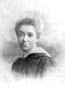 Margherita Ancona, Italian suffragette: member of the IWSA board and delegate to the Inter-Allied Women's Conference of 1919